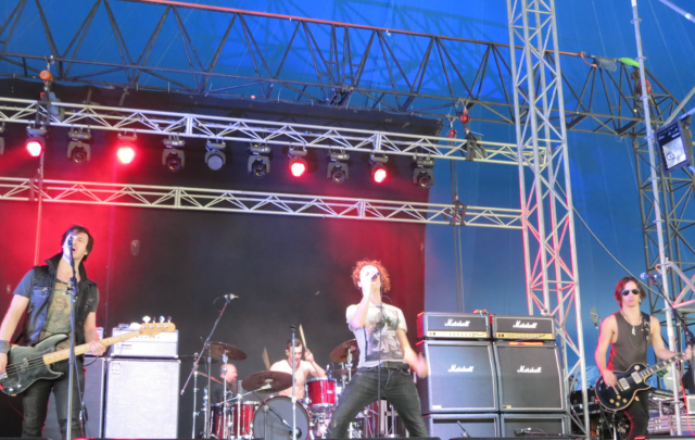 Heaven's Basement perform onstage at Soundwave Melbourne.